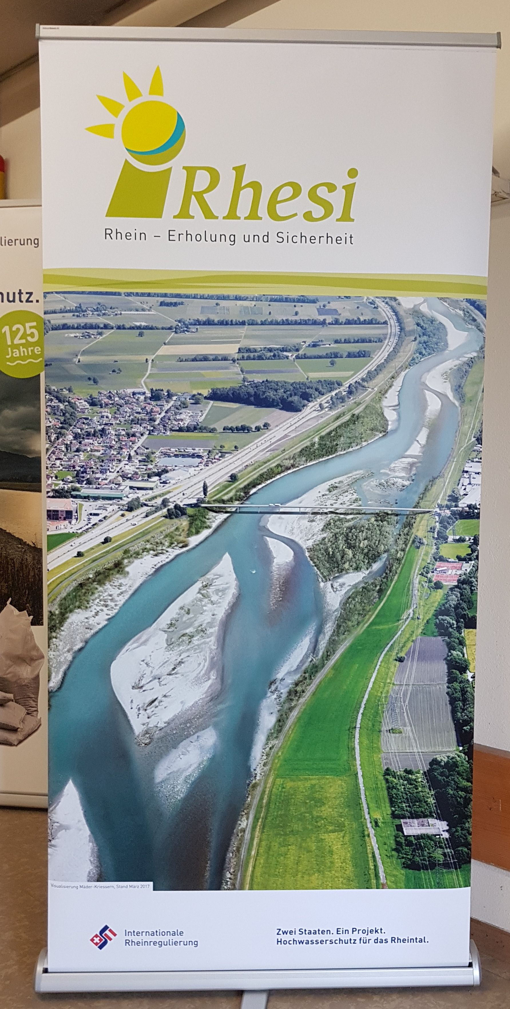 Exhibition and test facility RHESI in Dornbirn, Vorarlberg, Austria.